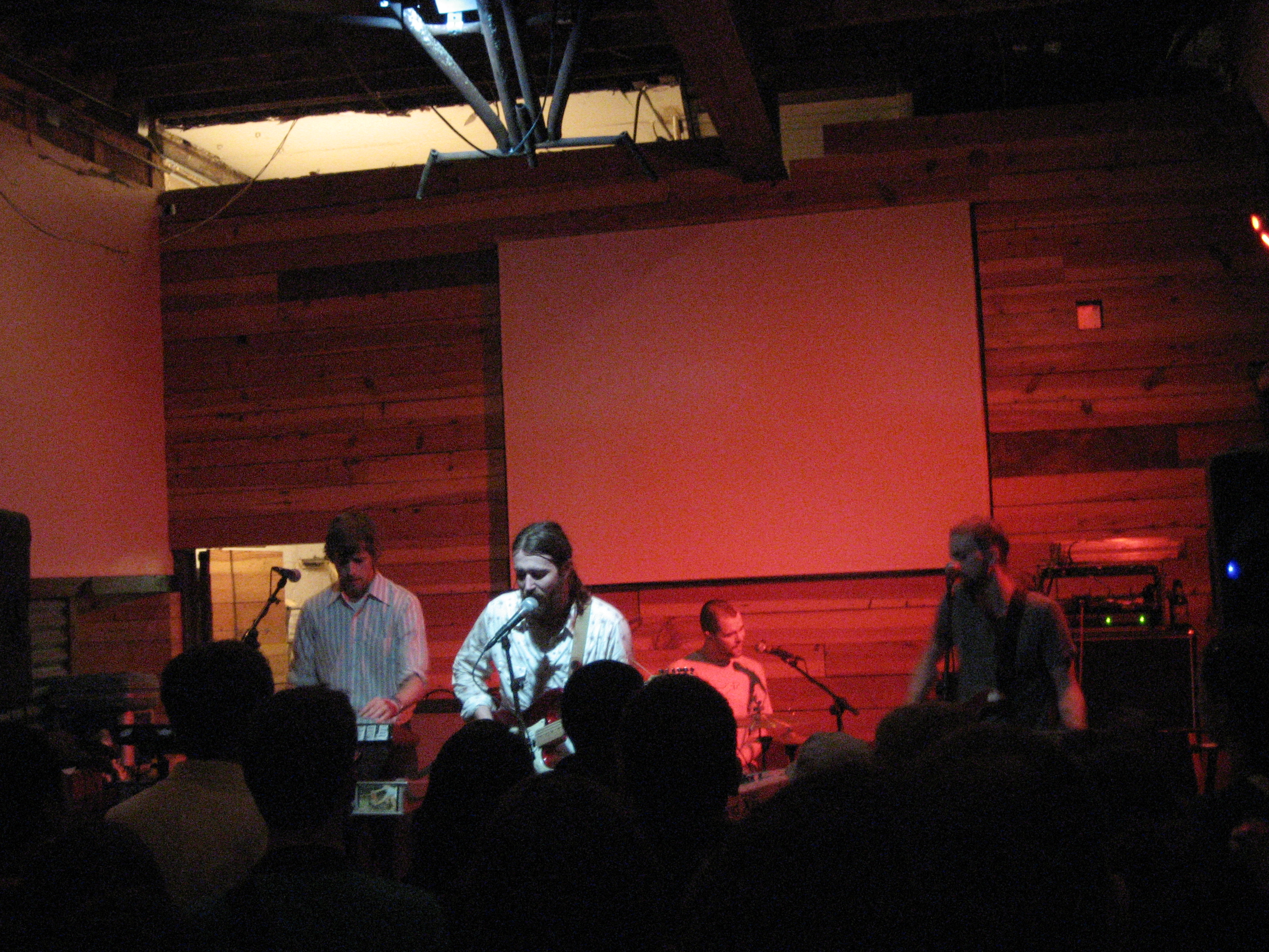 Band "What Made Milwaukee Famous" playing at SXSW 2007, Austin, Texas.